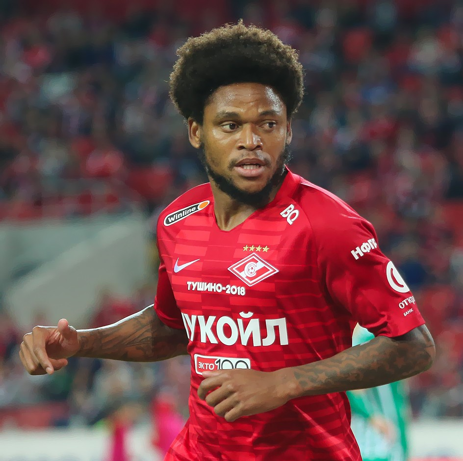 Luiz Adriano de Souza da Silva